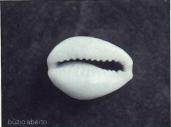 cawri or búzio used in some religions of Africa, Cuba, Haiti, Puerto Rico and Brasil, for divination.